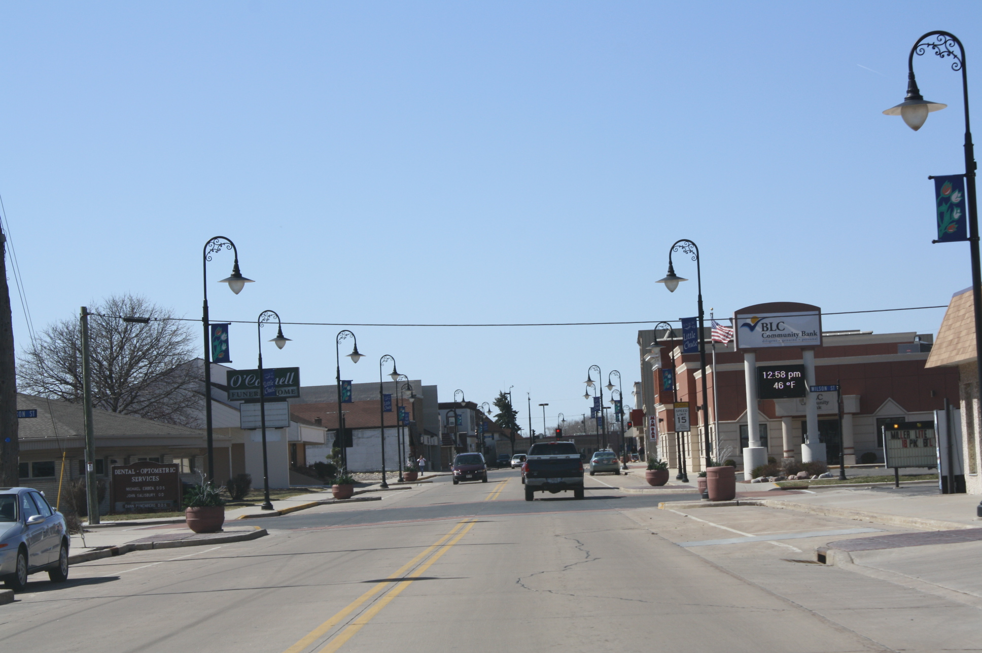 Looking westernly at downtown Little Chute, Wisconsin along Wisconsin Highway 96.